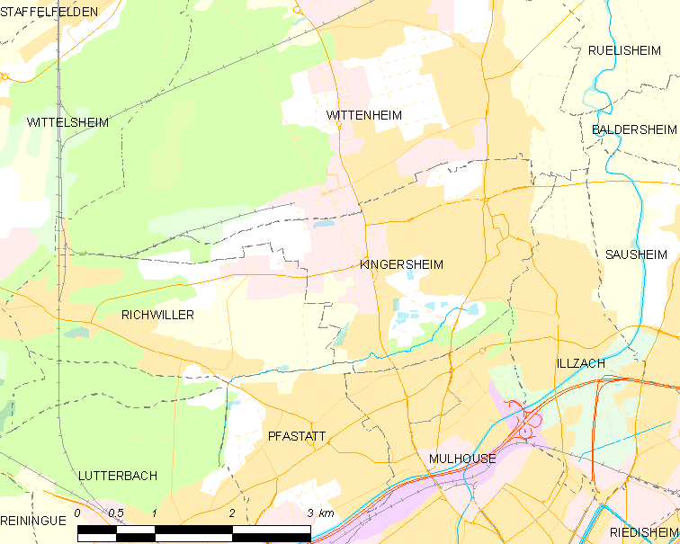 Map of French municipality